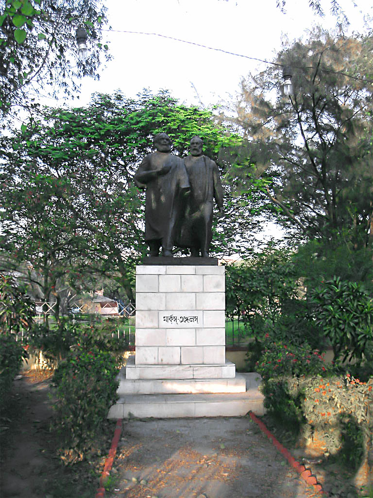 Karl Marx and Friedrich Engels statue in Kolkata. Photo: Soman